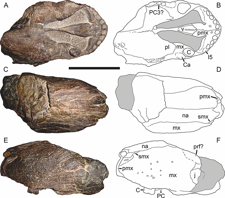 Holotype (BSPG 1936 III 1) of Sycosaurus nowaki (Broili & Schröder, 1936) in (A) ventral, (C) dorsal, and (E) left lateral view (with (B) (D) and (F) interpretive drawings). Abbreviations: C, upper canine; Ca, canine alveolus; I, upper incisor; j, jugal; mx, maxilla; na, nasal; PC, upper postcanine; pmx, premaxilla; prf, prefrontal; smx, septomaxilla; v, vomer. Gray indicates matrix. Scale bar equals 10 cm.